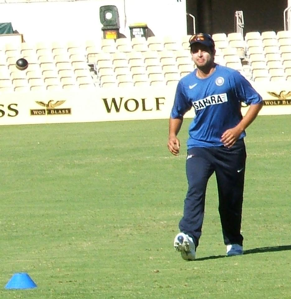 Suresh Raina fielding at Adelaide Oval